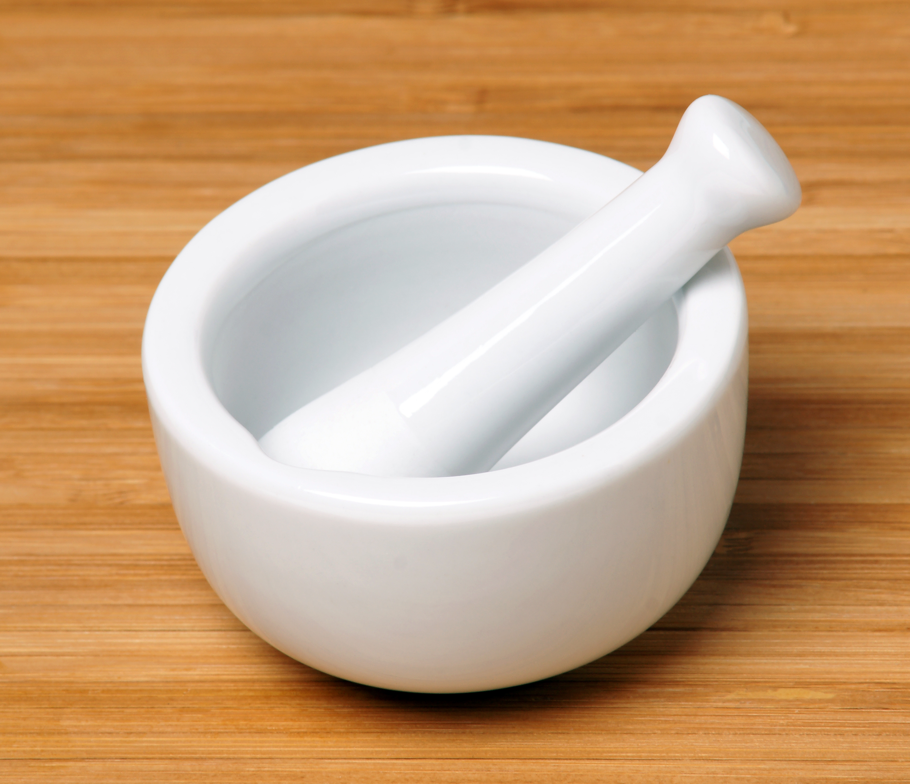 A small and simple white mortar and pestle, on bamboo.